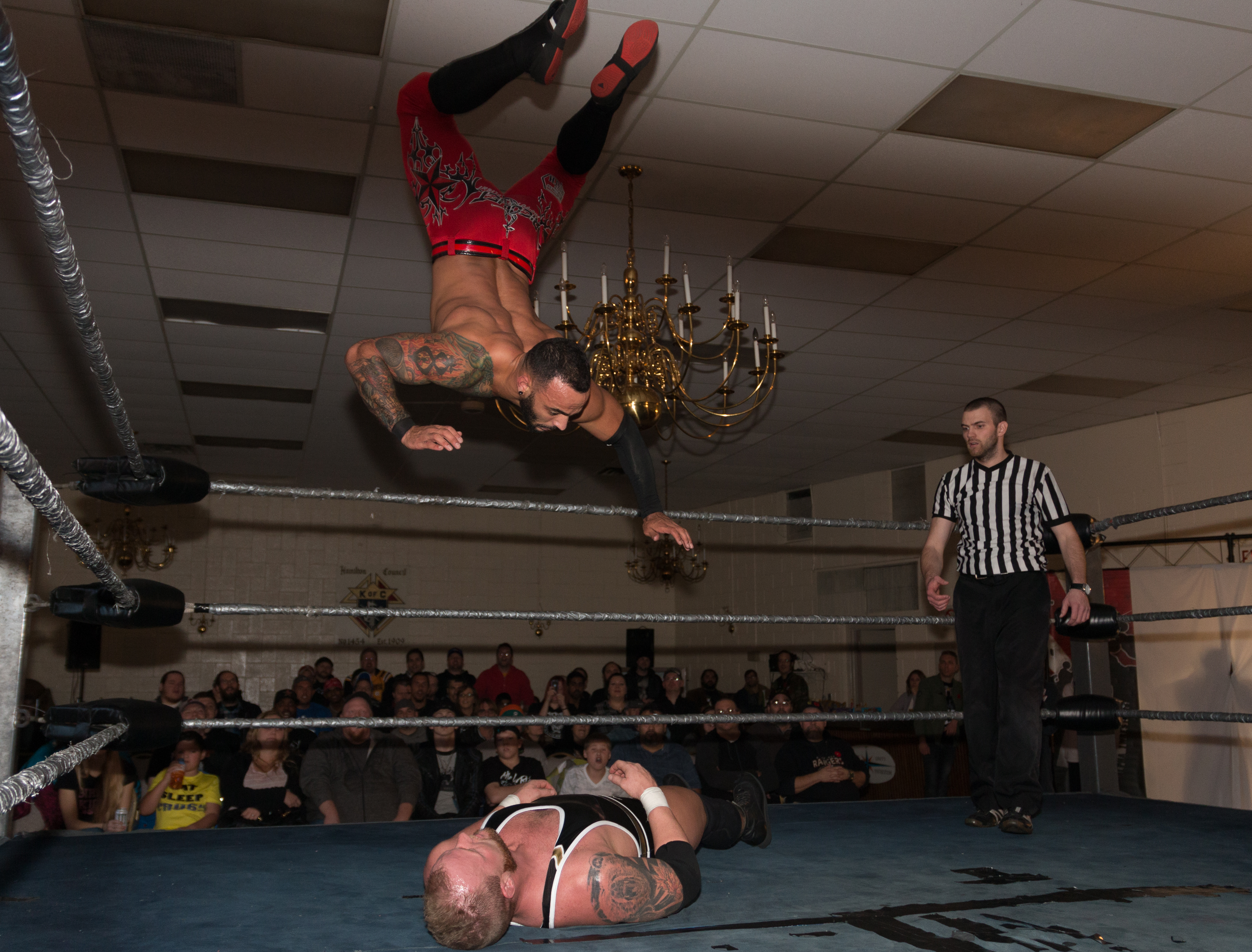 Independent wrestler Ricochet (left) executing a shooting star press onto Josh Alexander at Alpha 1's Final Act 5 Season Finale show